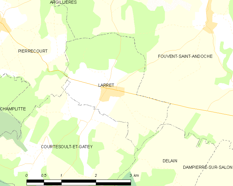 Map of French municipality